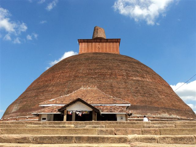 The Jethawanaramaya Dagoba in Anuradhapura, Sri Lanka